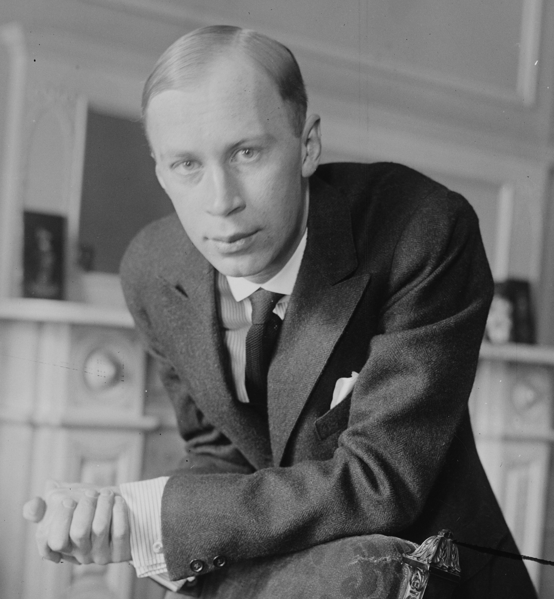 Russian composer Sergei Prokofiev (1891-1953)